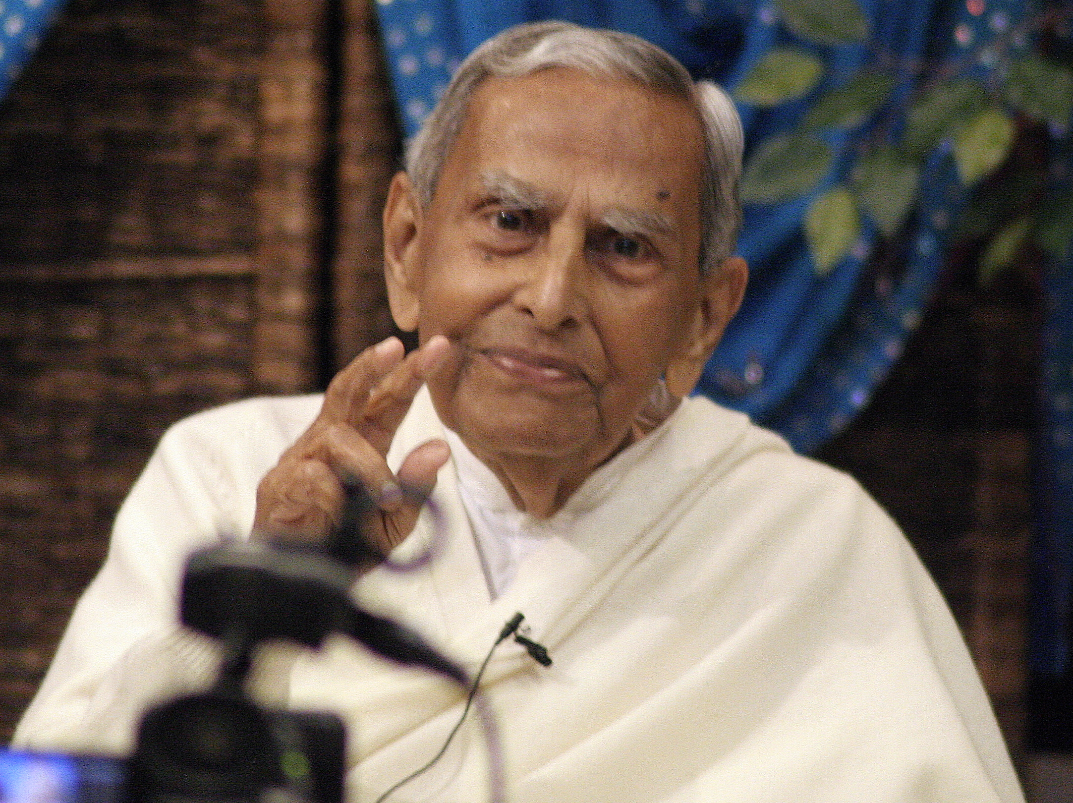 Dada J.P.Vaswani visited Seattle area. I took this photo during his address to people in Redmond